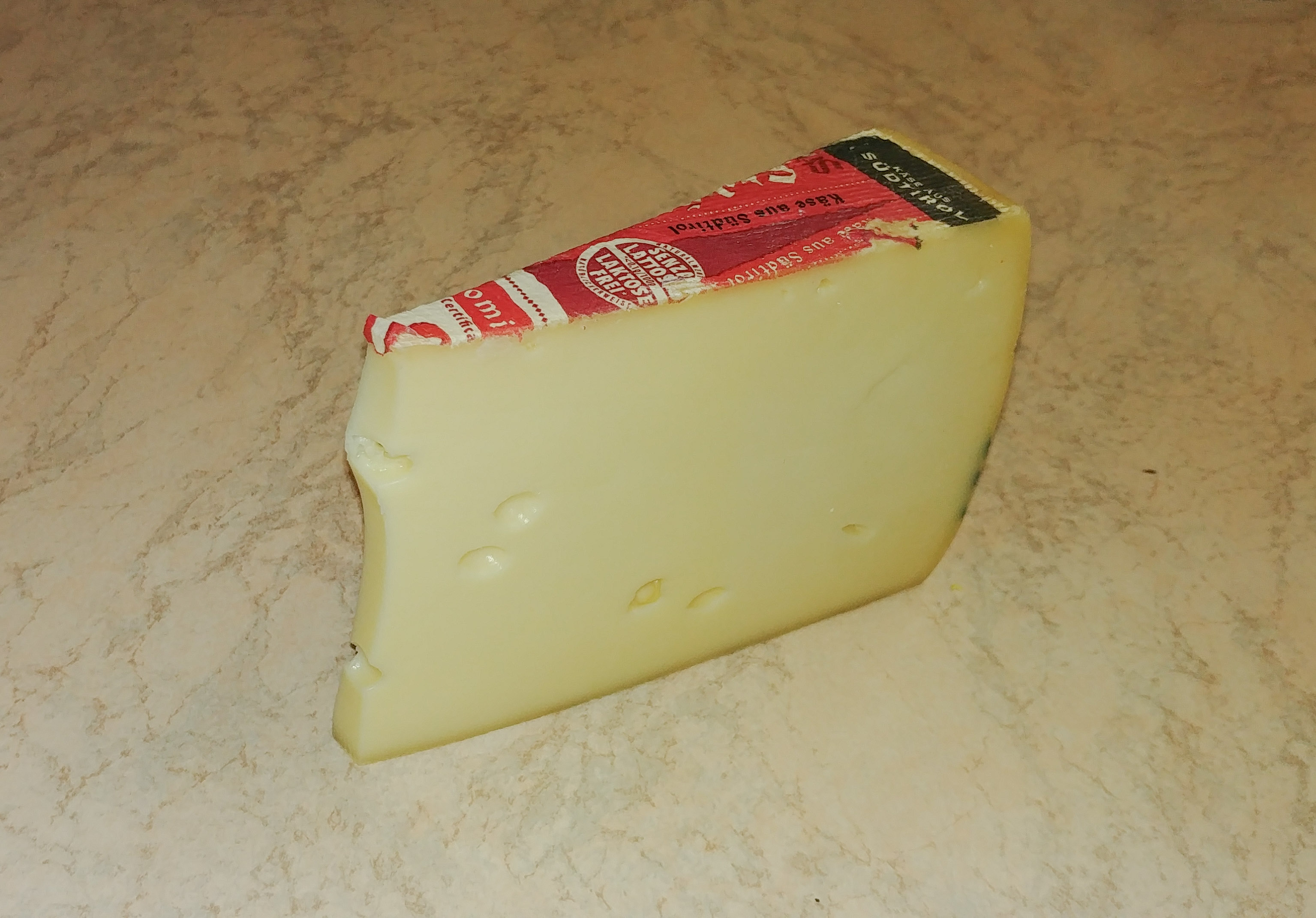 A slice of Stelvio cheese